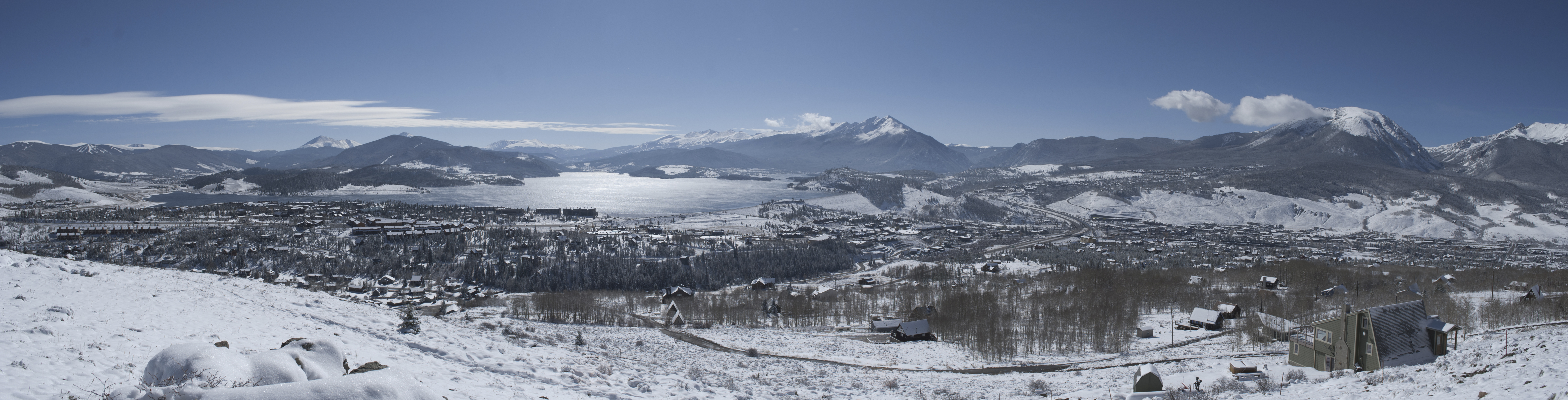 An early season snowfall on Summit County. Panoramic view of Summit Cove, Dillon, Lake Dillon, the Dillon Dam, and Silverthorne.